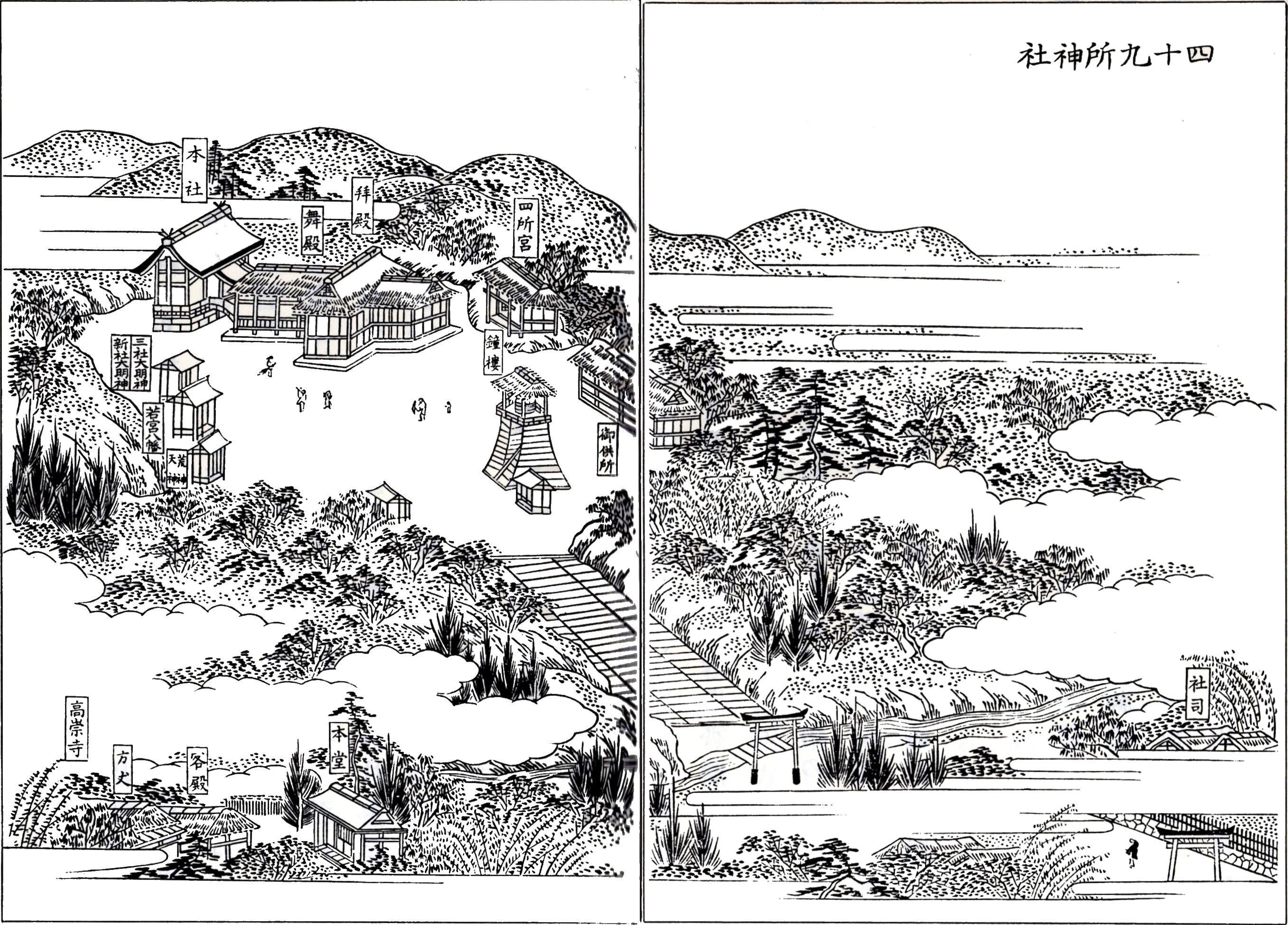 Shijukusho Shrine in the 19th Century (Kimotsuki Town, Kagoshima, Japan)